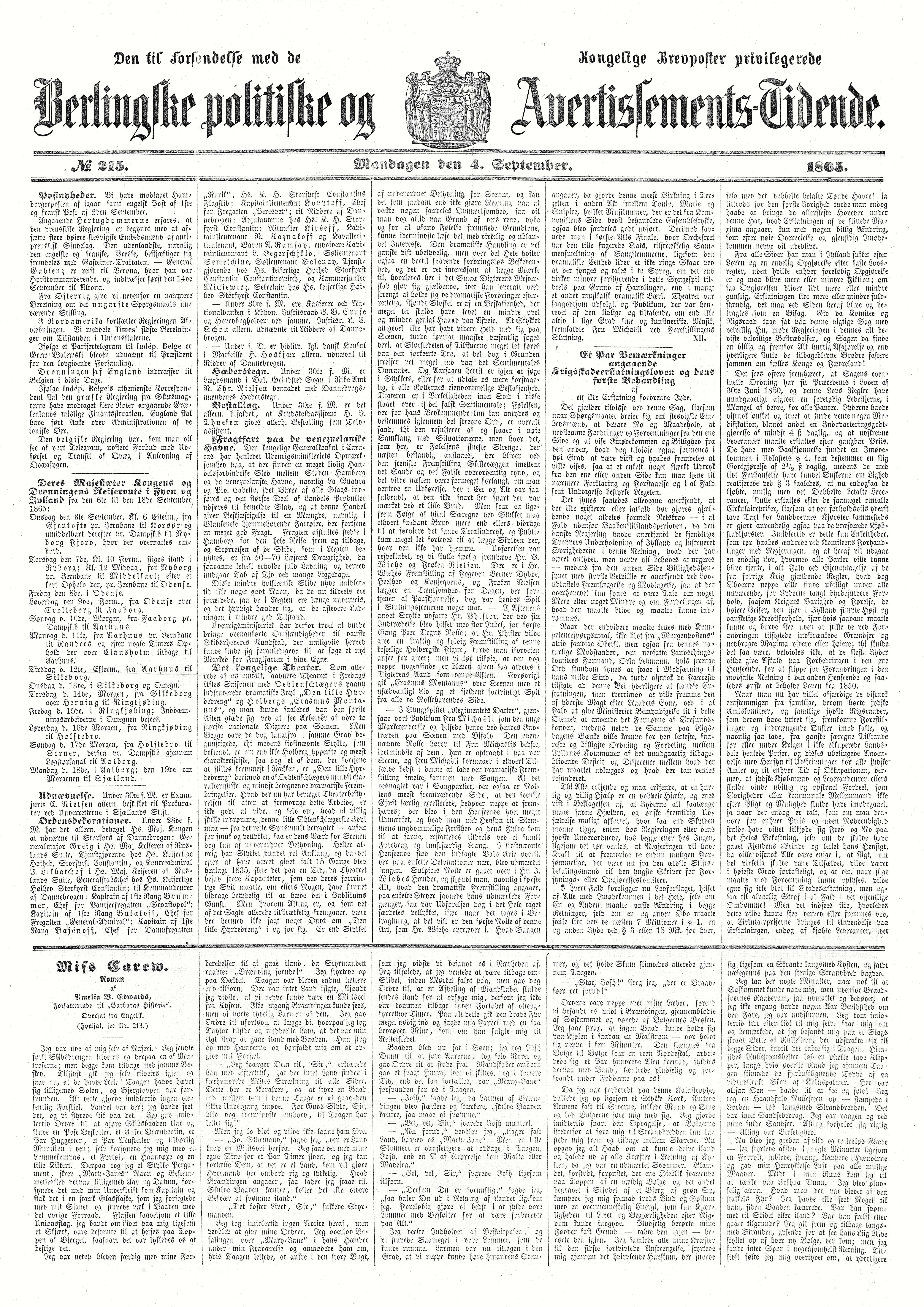 Frontpage of Berlingske Tidende 1865